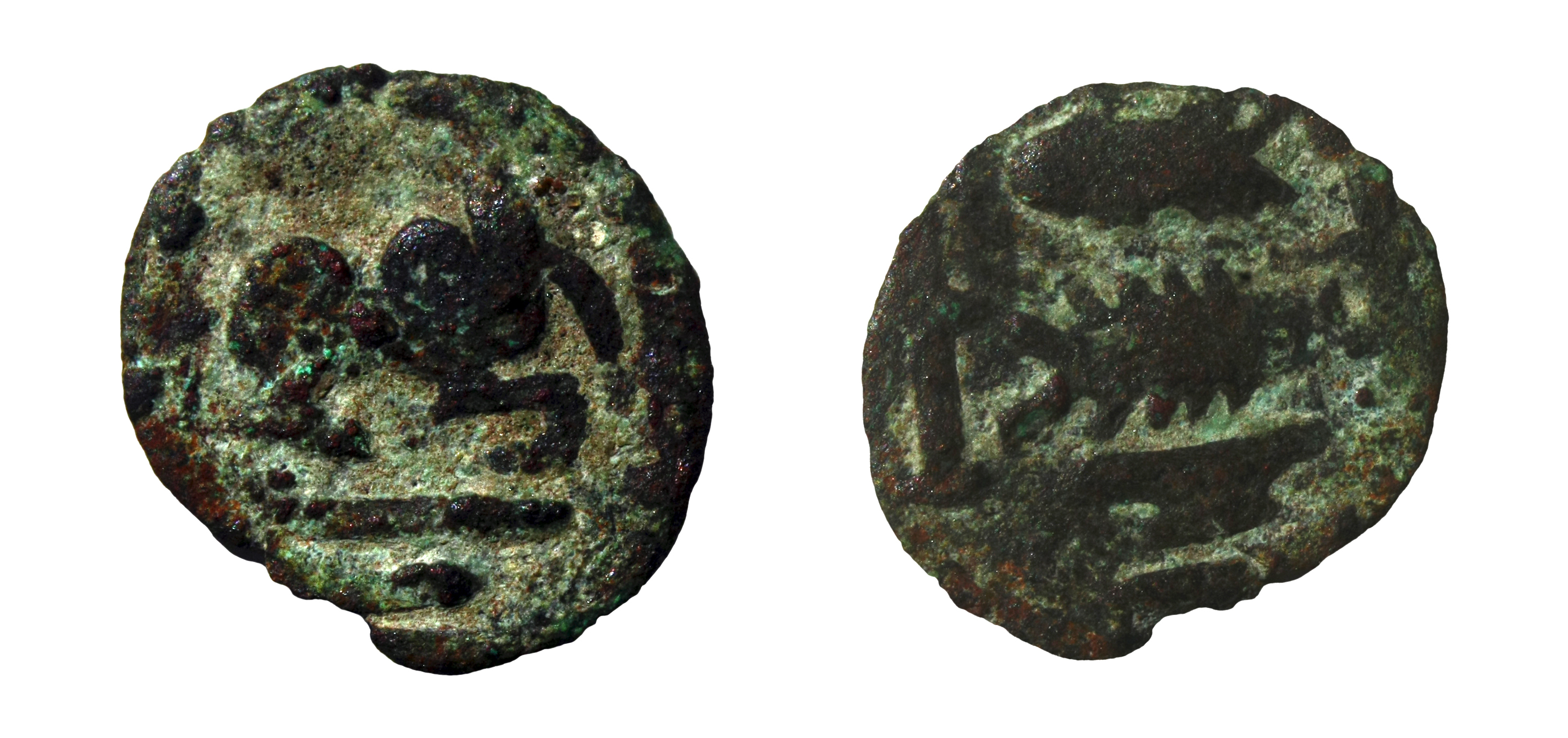 Pandyan bull coin with fishes on reverse side, found in Sri Lanka.